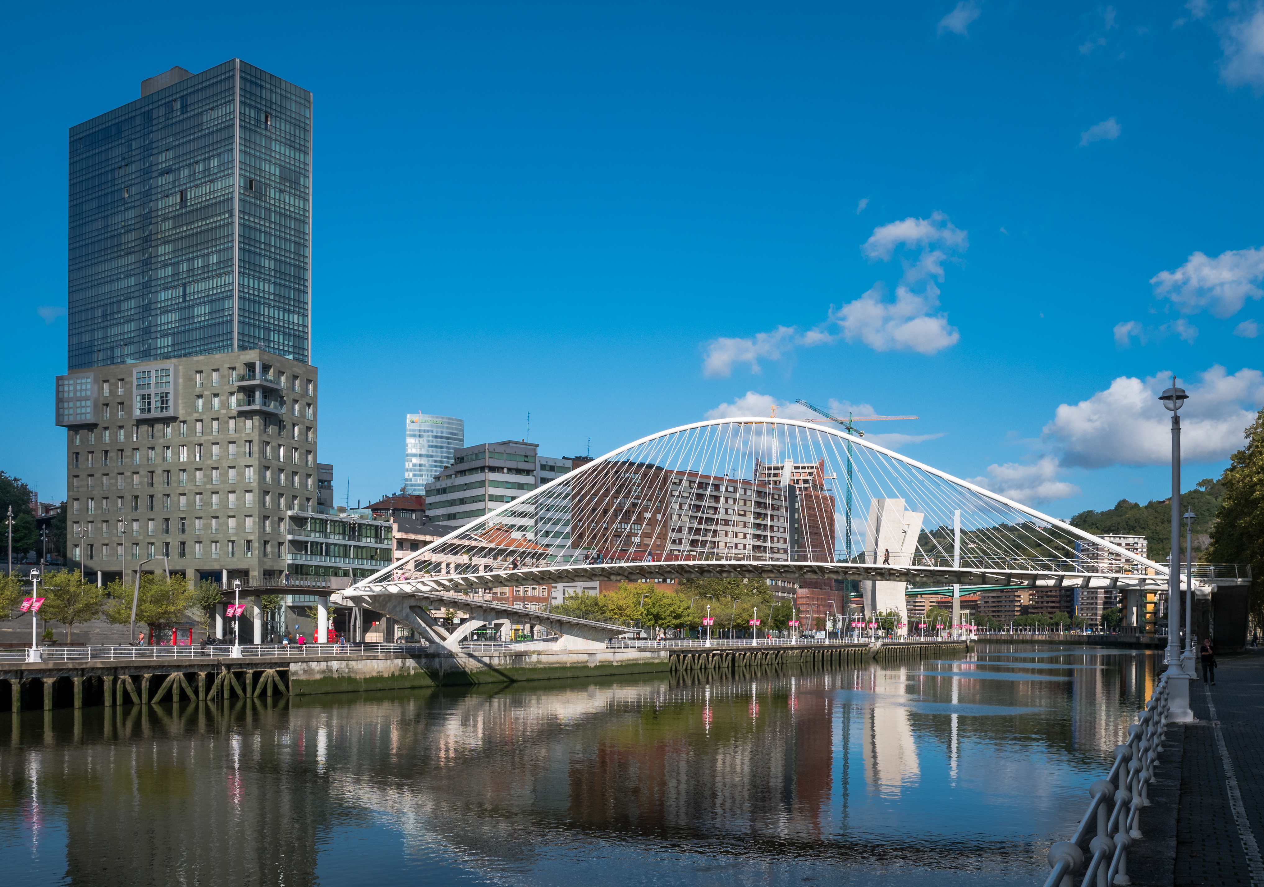 Zubizuri bridge. Bilbao, Biscay, Spain. See also: Santiago Calatrava.